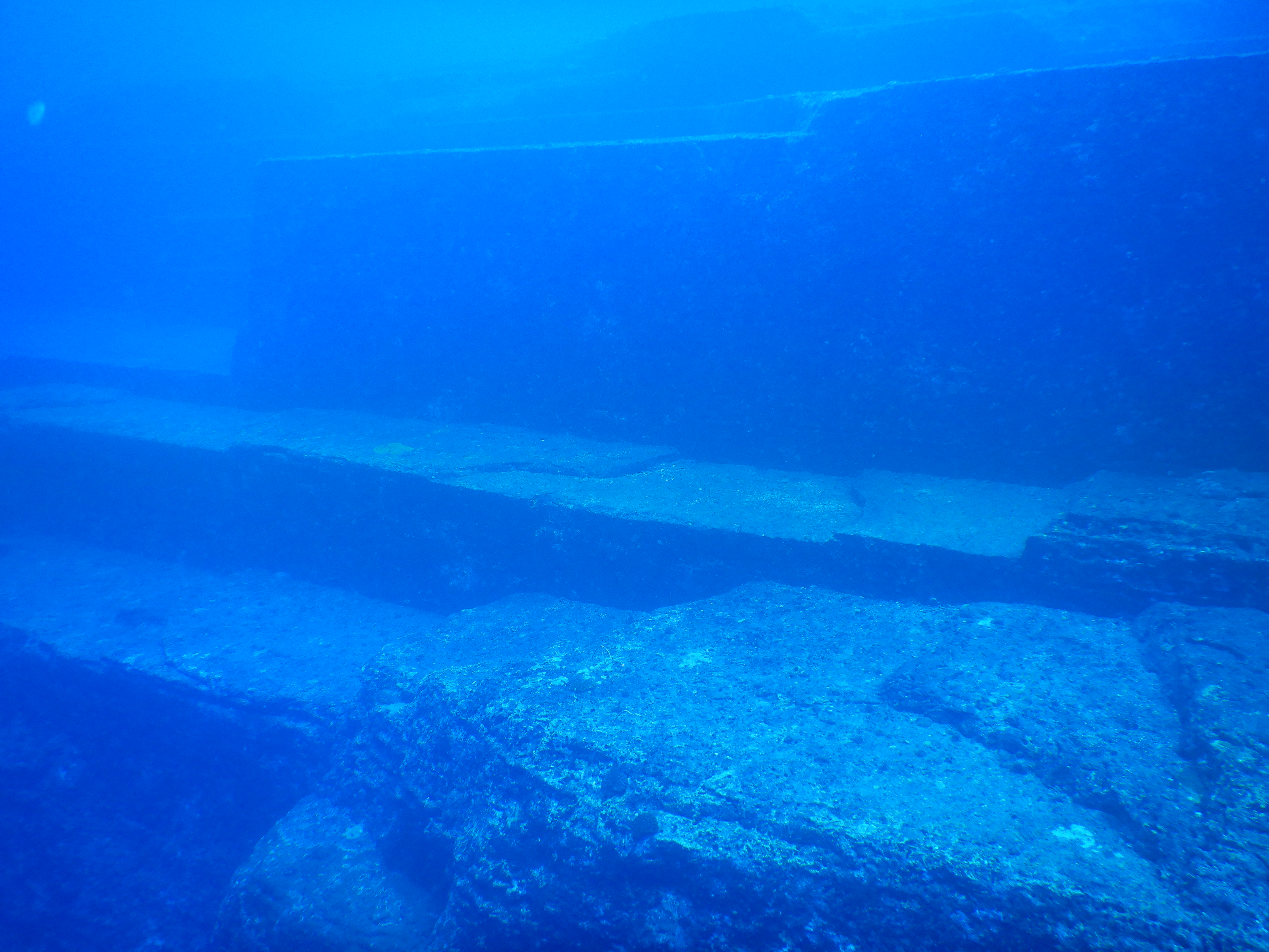 "Main terrace" on the left, "straight wall" on the front.